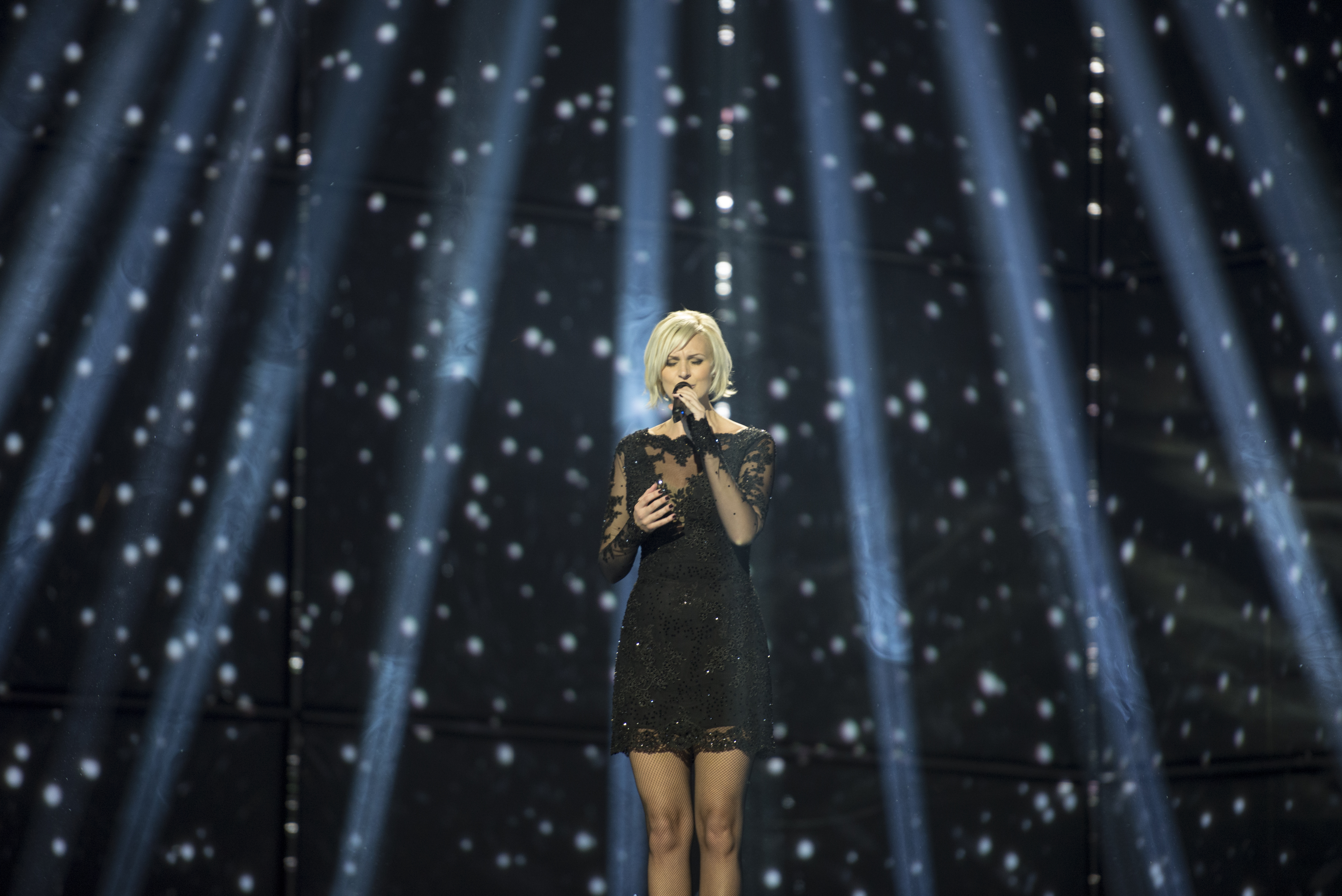 Sanna Nielsen representing Sweden with the song "Undo" during the first dress rehearsal of the first semi final of the Eurovision Song Contest 2014 Copenhagen. (Help translate this text)